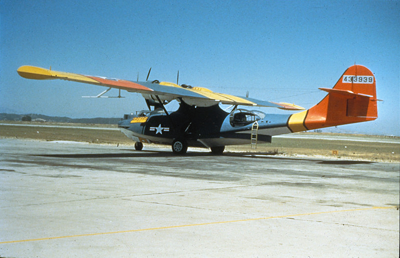 Canadian Vickers SA-10A Catalina 44-33939, 4th Rescue Group, Hamilton AFB, California. Canadian-built Catalina (PBV-1A) from Navy contract delivered to USAAF as OA-10A Catalina in 1945, redesignated SA-10A in 1948 when the USAF reserved the A for Attack aircraft. USN BuNo 67903. Sold in 1958 to Cuban Air Force as 191